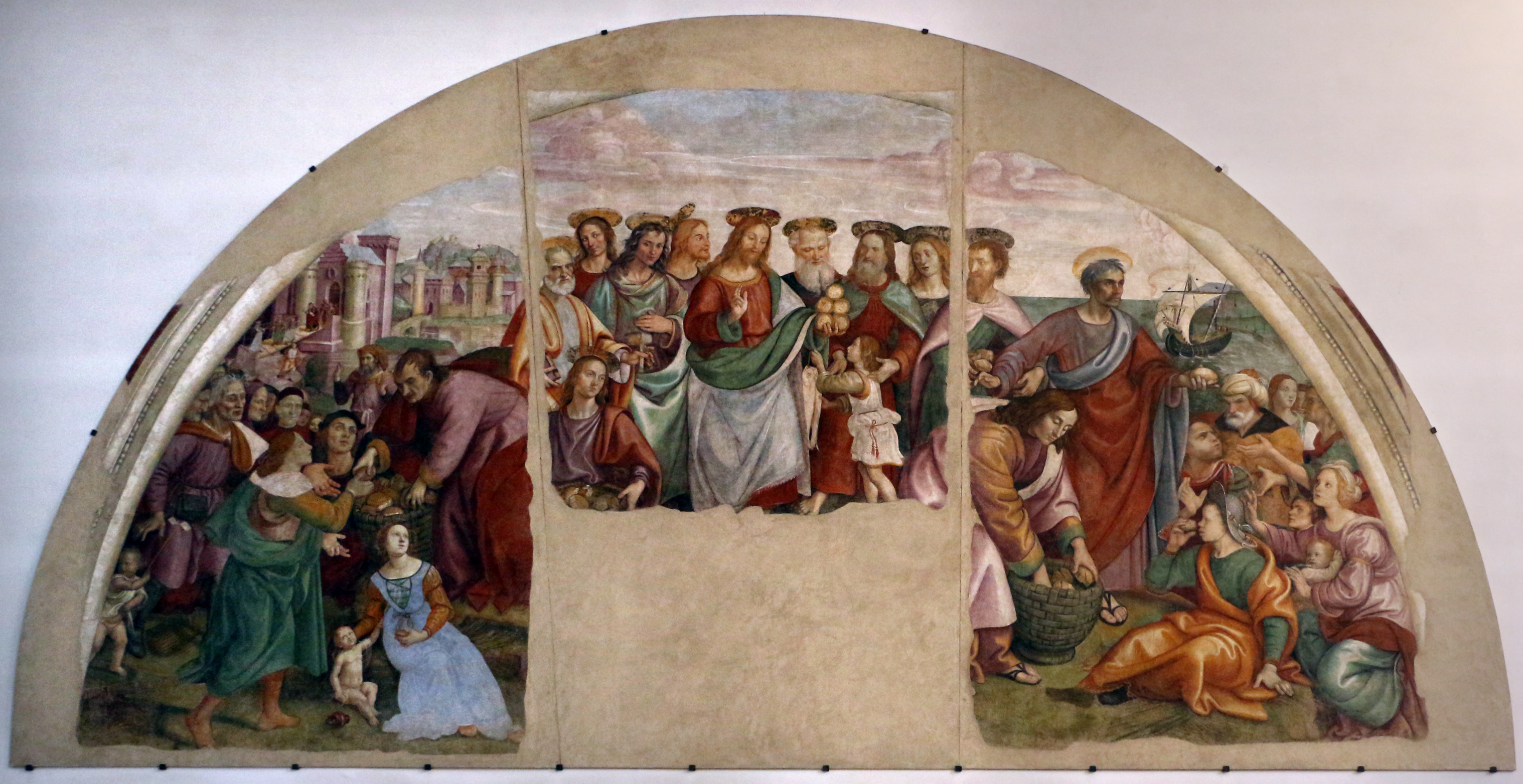 Feeding the multitude by Raffaellino del Garbo